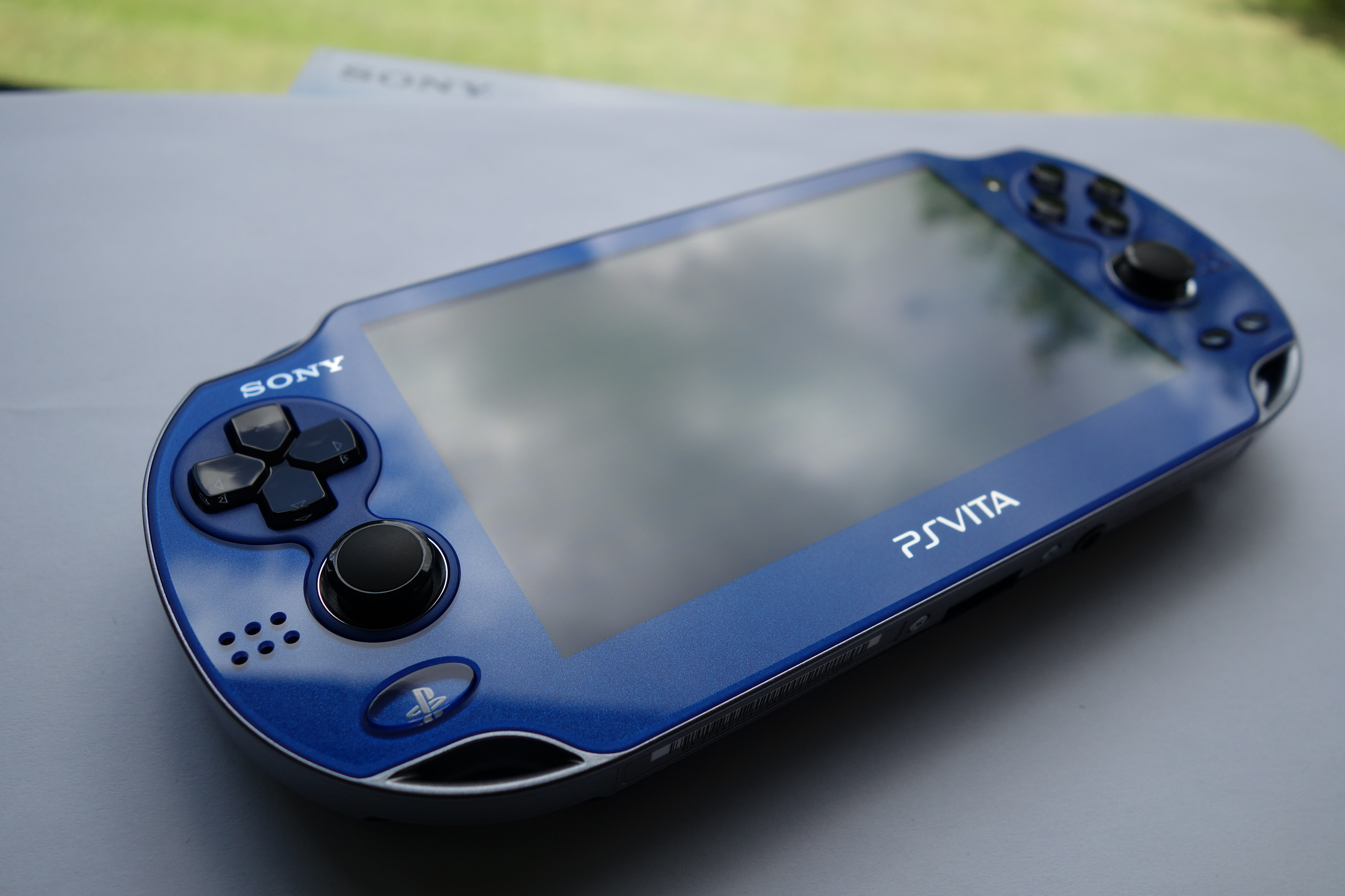 A PCH-1000 model PlayStation Vita in "Sapphire Blue" colour.